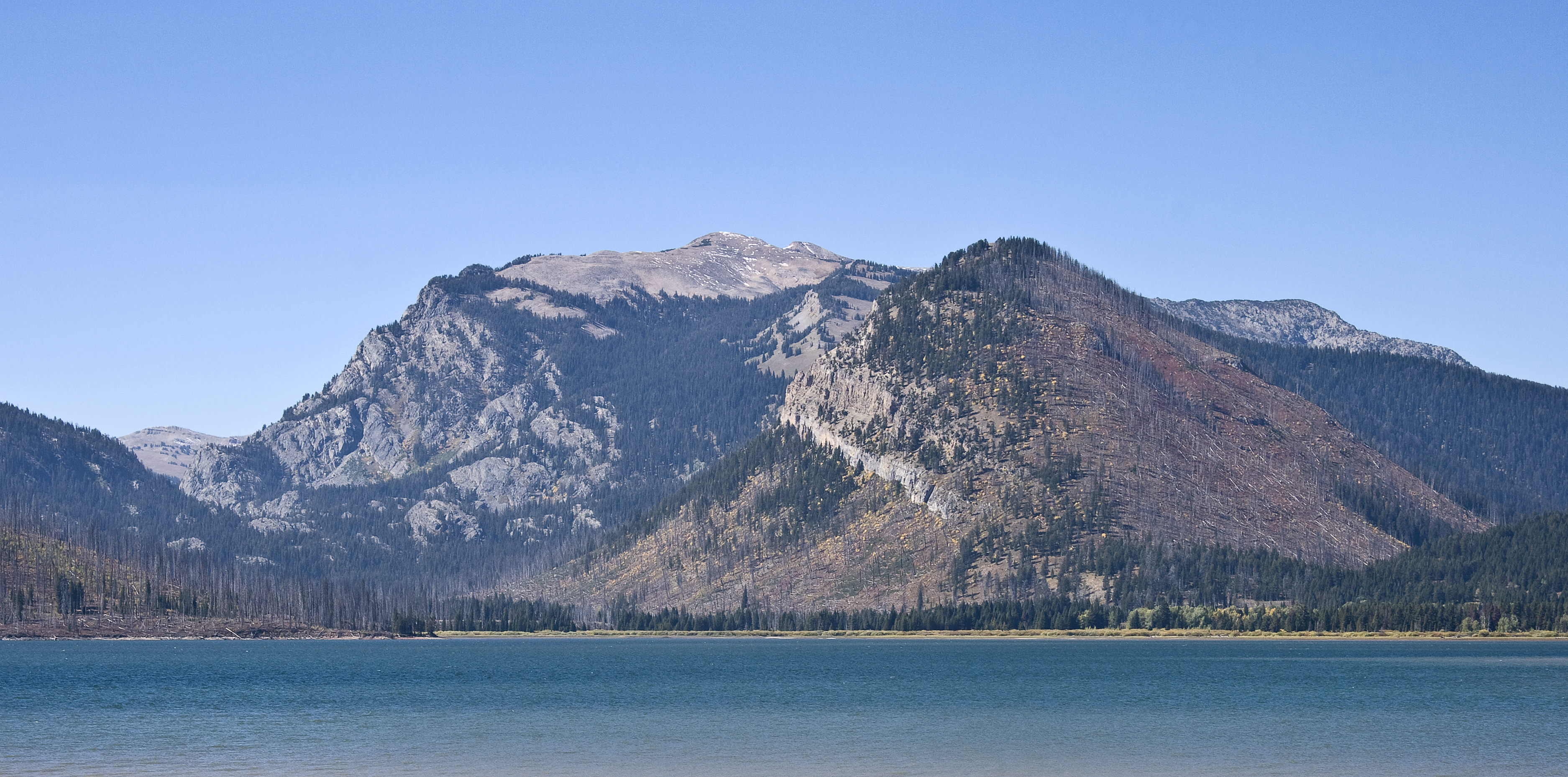 Northern Teton Range, with Jackson Lake in the foreground. From left, Webb Canyon with Moose Mountain in the distance, Owl Peak with unnamed spur in foreground, Elk Mountain extending to right, in Grand Teton National Park, Wyoming, USA